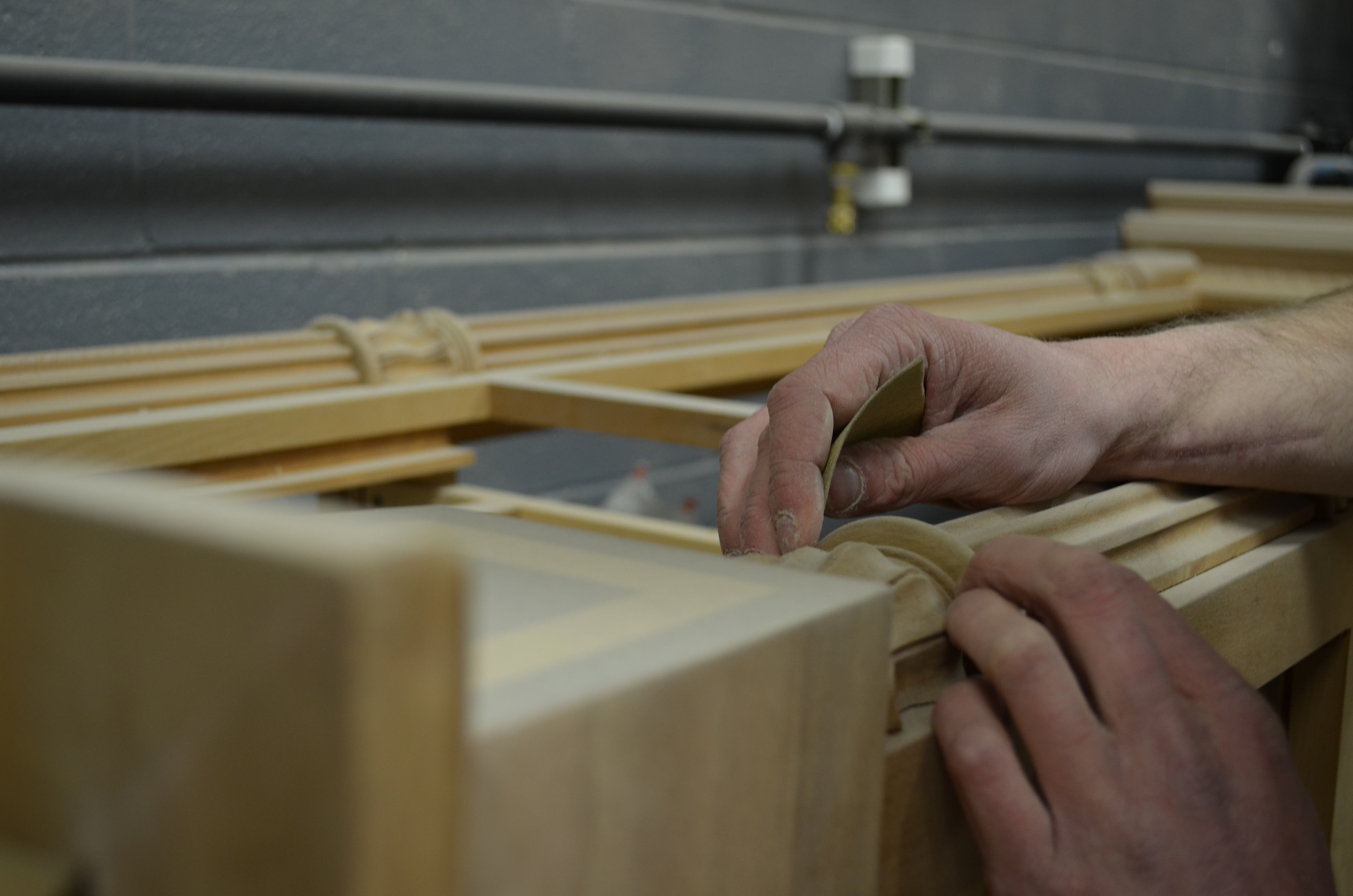 An employee sands a grandfather clock with precision.